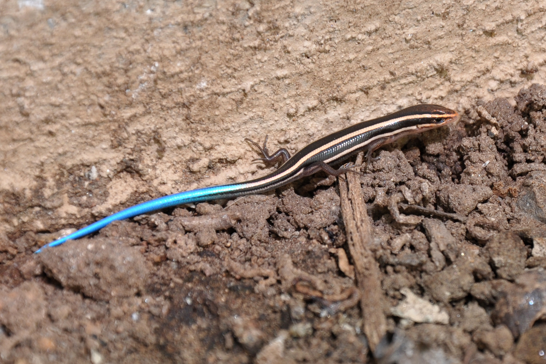 Western Skink (plestiodon skiltonianus interparietalis), a juvenile, 5cm in length, found in Escondido, California, USA.